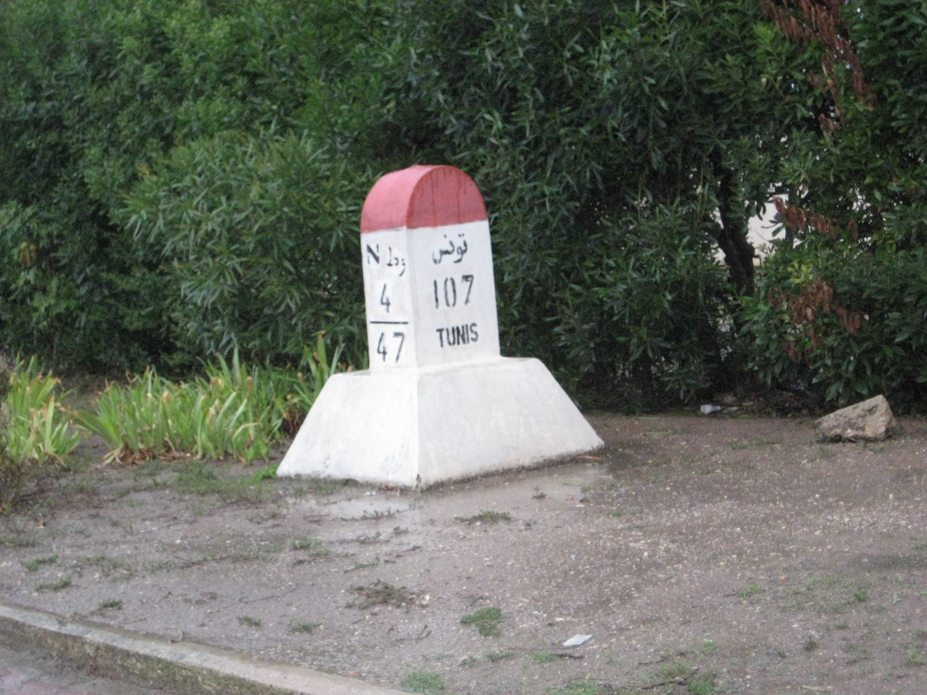 milestone